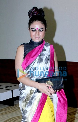 Priya Malik at a special screening of 'Kya Kool Hain Hum 3'